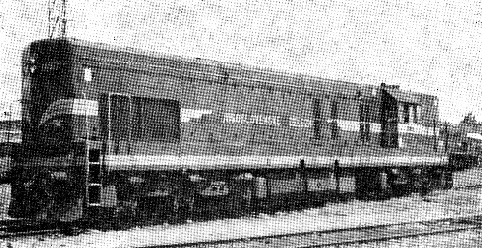 EMD G16 locomotive in the former Yugoslavia. Designated there as Series 661 Source: Photo given to me from a collection of a friend of mine.